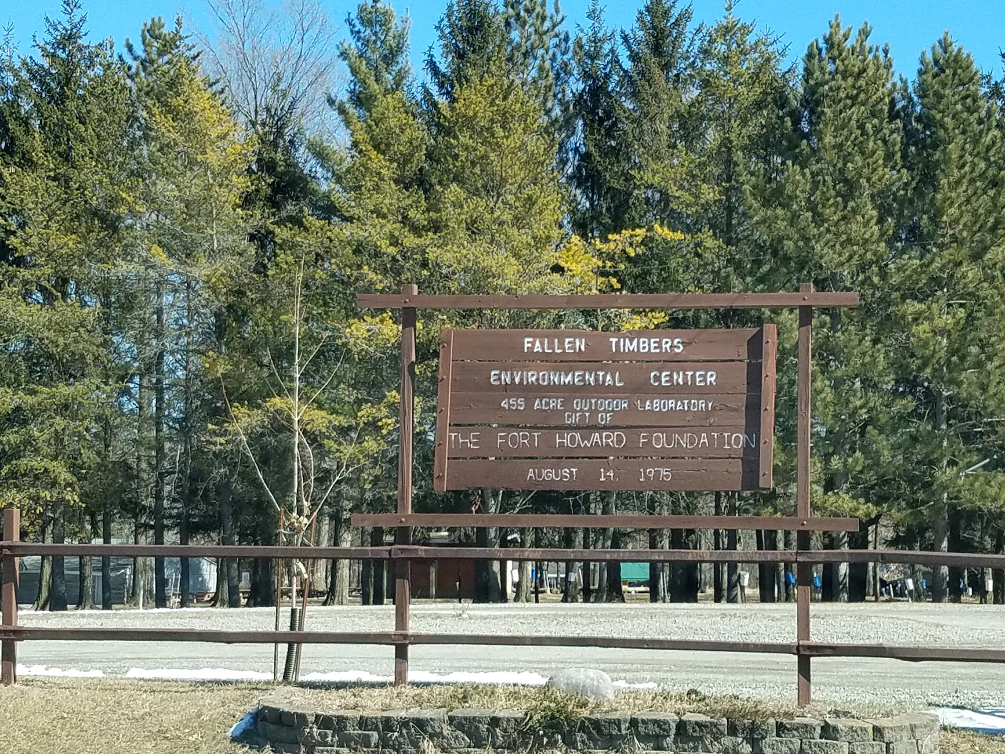 Signage for Fallen Timbers Environmental Education Center in Black Creek, Wisconsin.